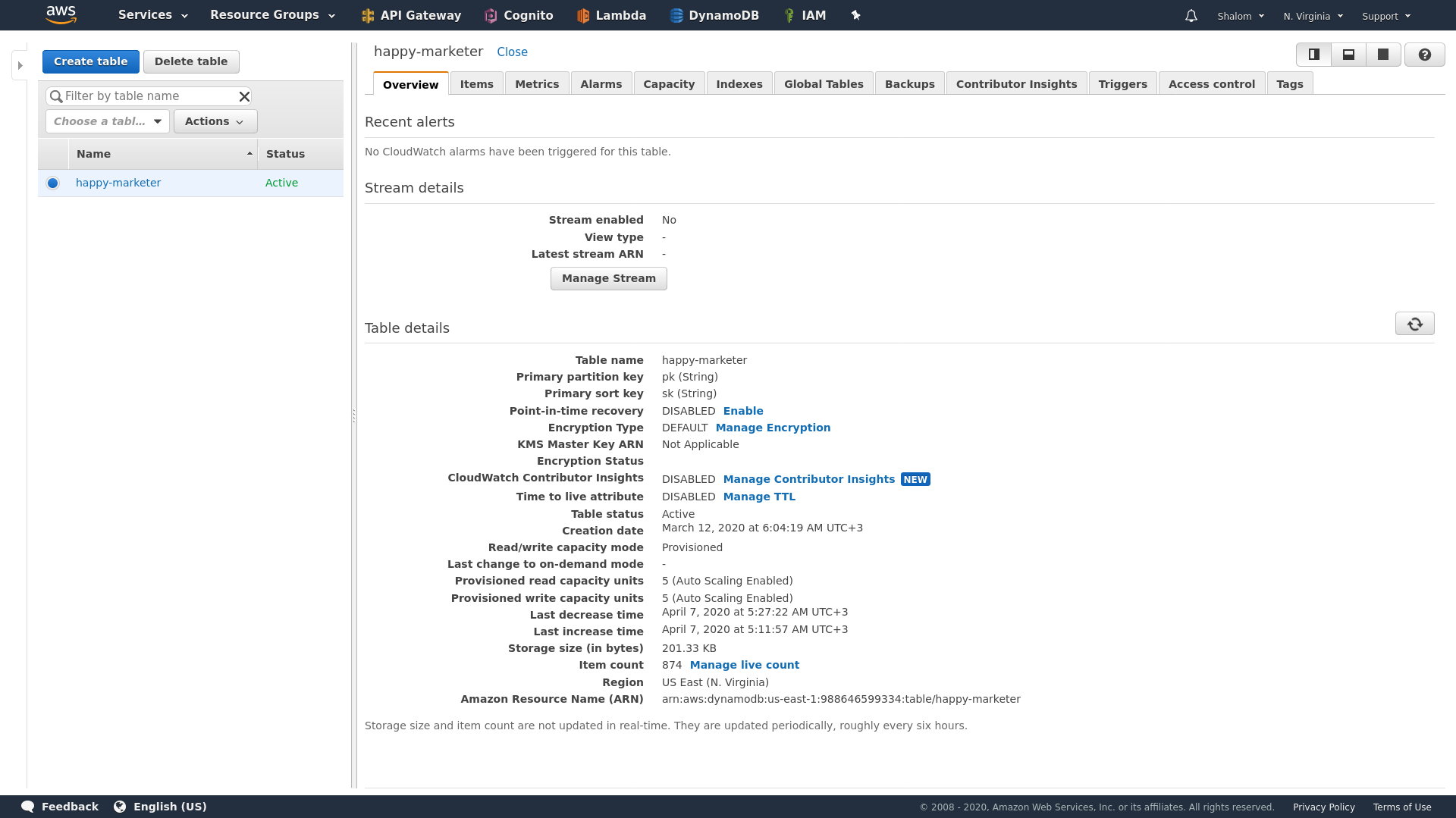 AWS DynamoDB: web console overview